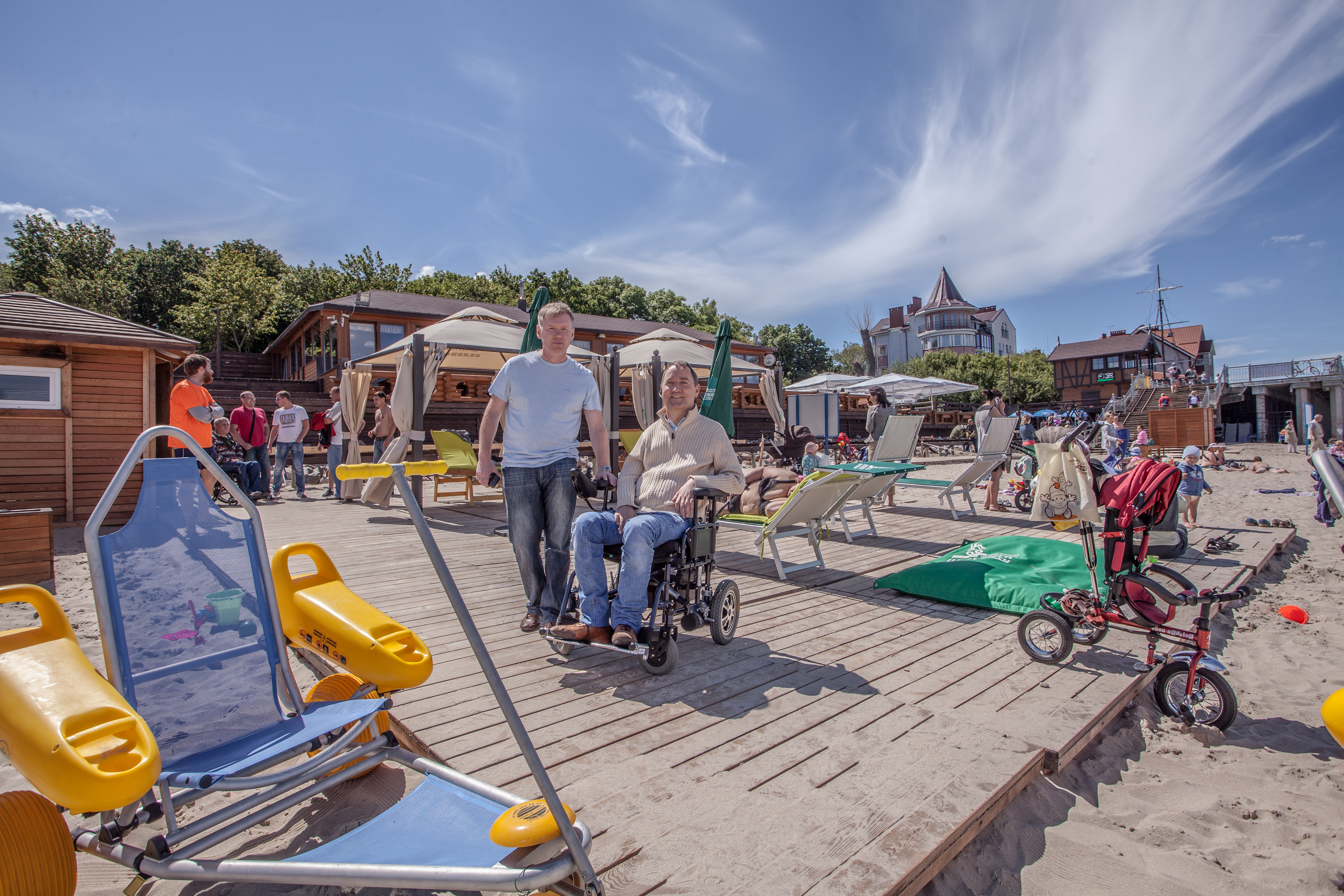 Роман Аранин на Зеленоградском адаптированном пляже